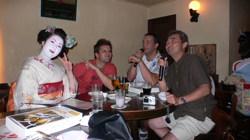 Modern ozashiki include karaoke and beer instead of poetry and sake. Yukikazu on Odamoto okiya in Gion Kôbu.